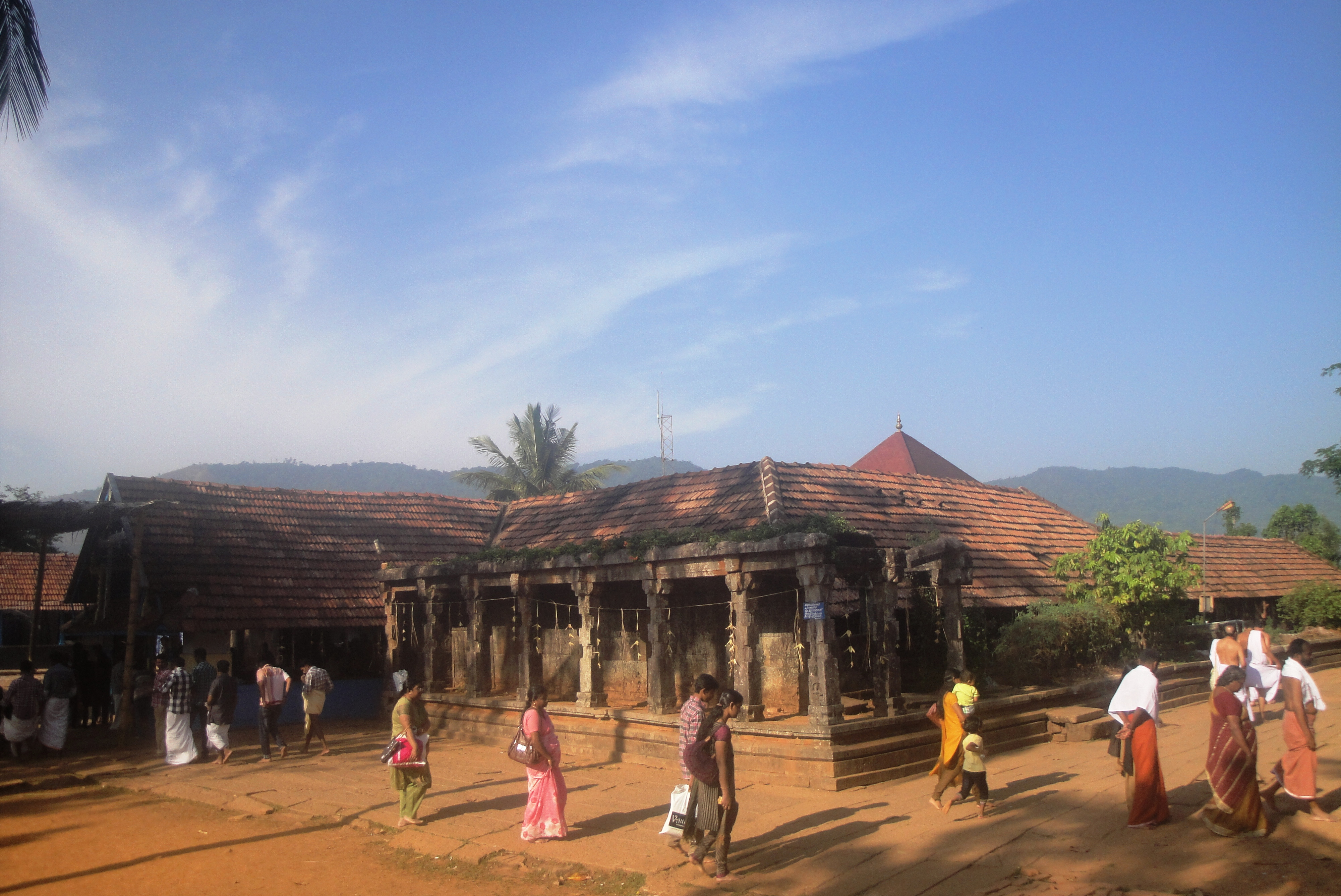 Thirunelli Temple